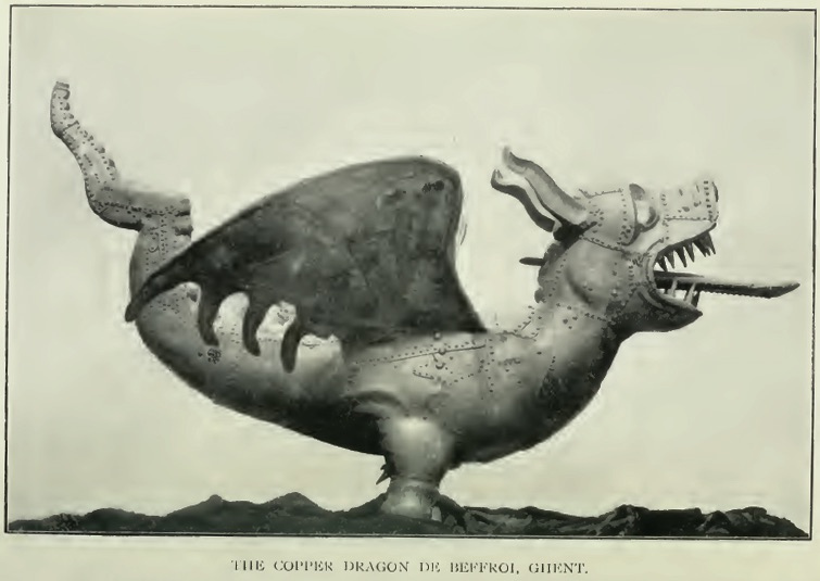 THE gilded copper Dragon on top of the Genth tower, constructed in 1377-1378